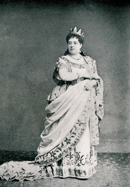 Photograph of Thérèse Tietjens as Lucrezia Borgia